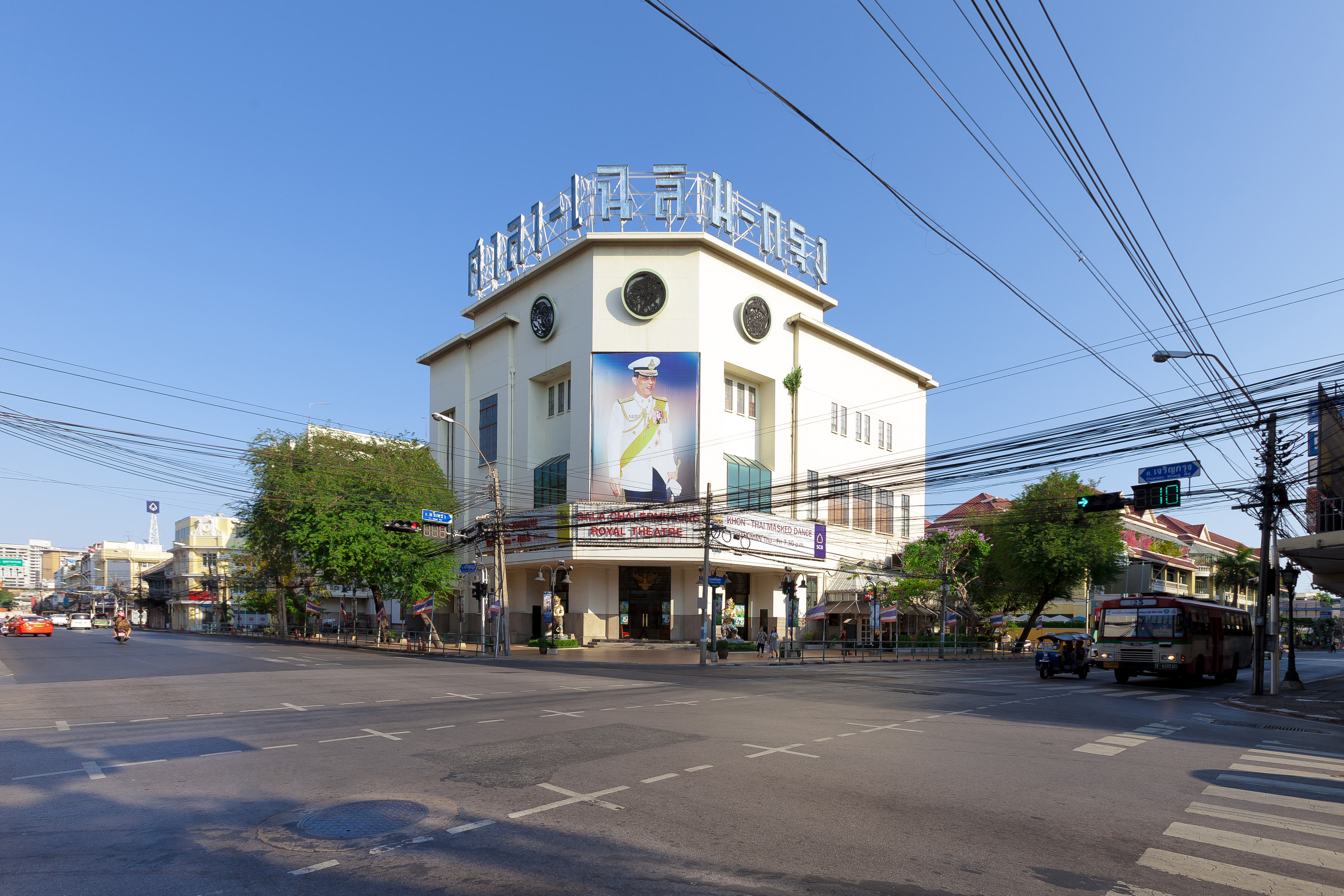 Sala Chaloem Krung, BKK.